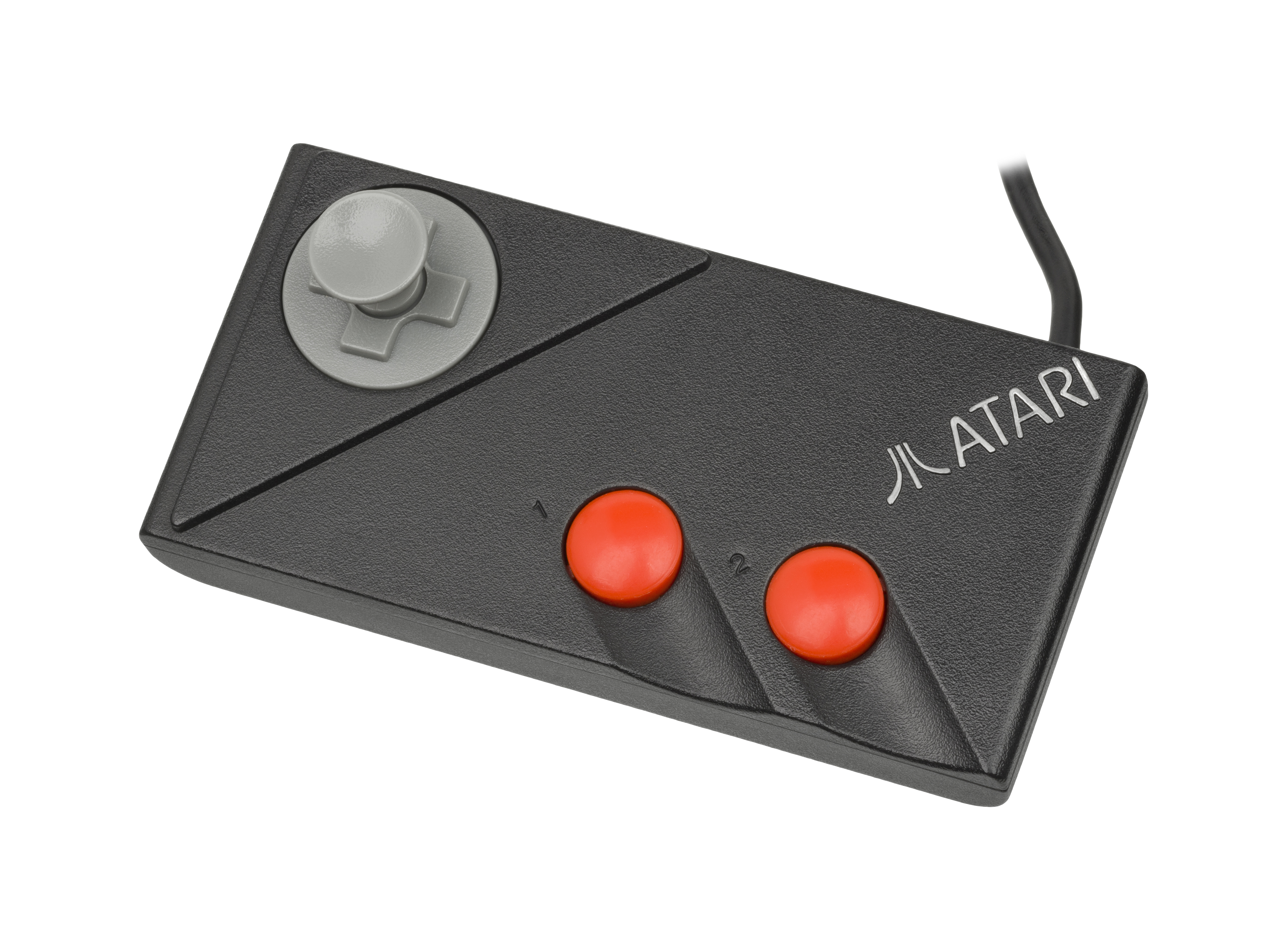 The joypad controller (CX78) for the Atari 7800 video game console. The 7800 originally released with a joystick-style controller, and Atari later introduced this joypad-style controller. This controller would later become the standard pack-in controller for the European version of the 7800.